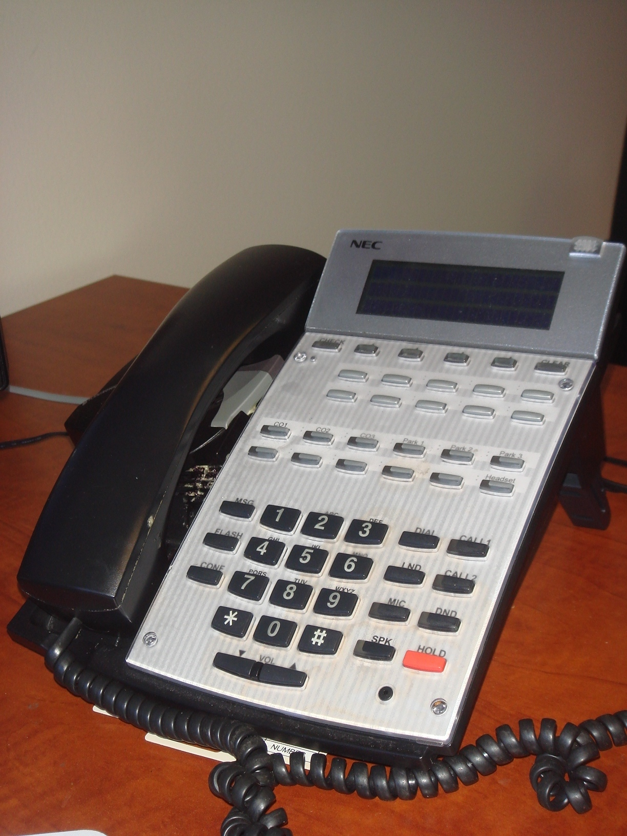 An NEC office phone